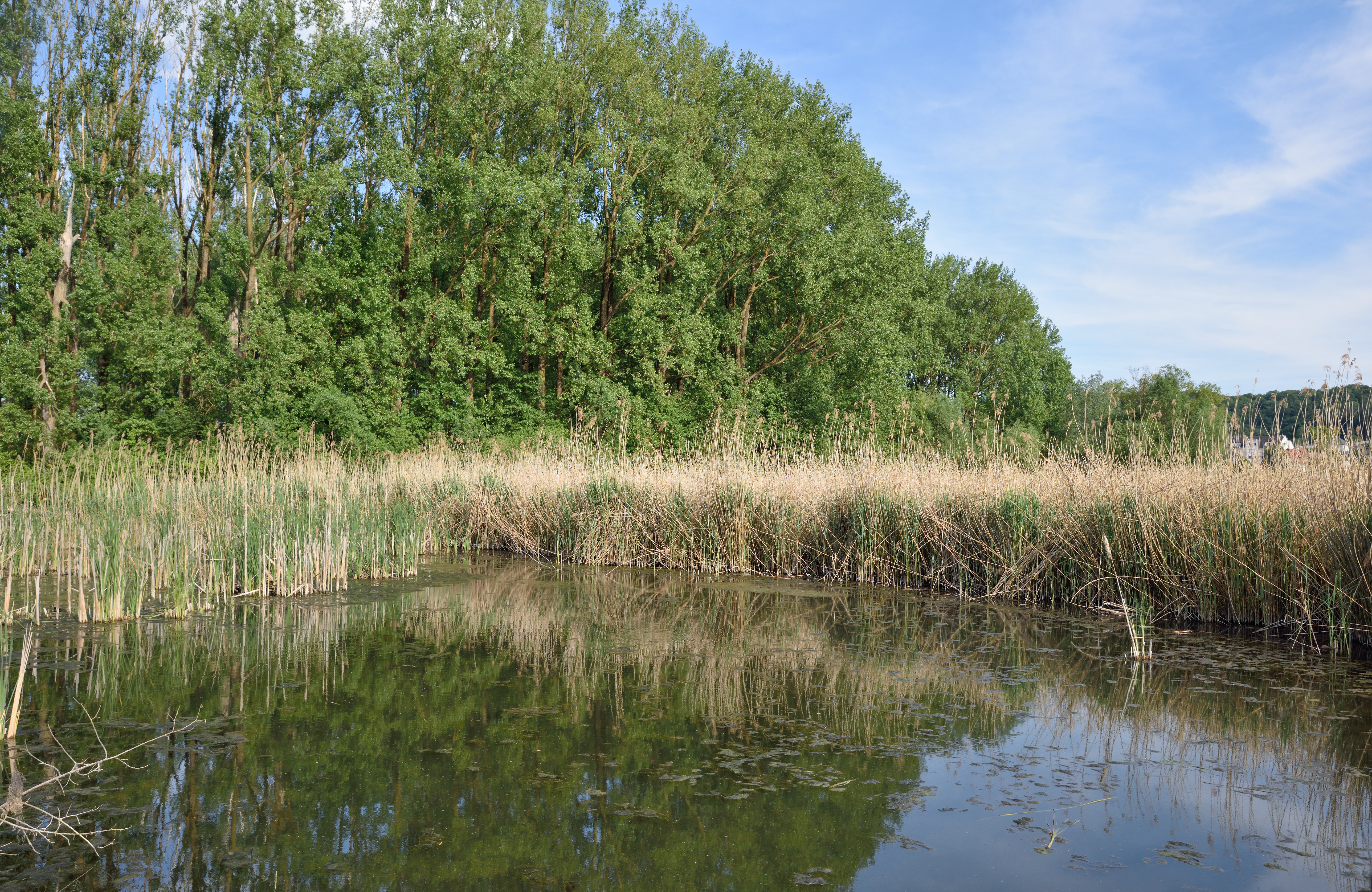 Nature reserve Brill in the commune of Schifflange, Luxembourg.